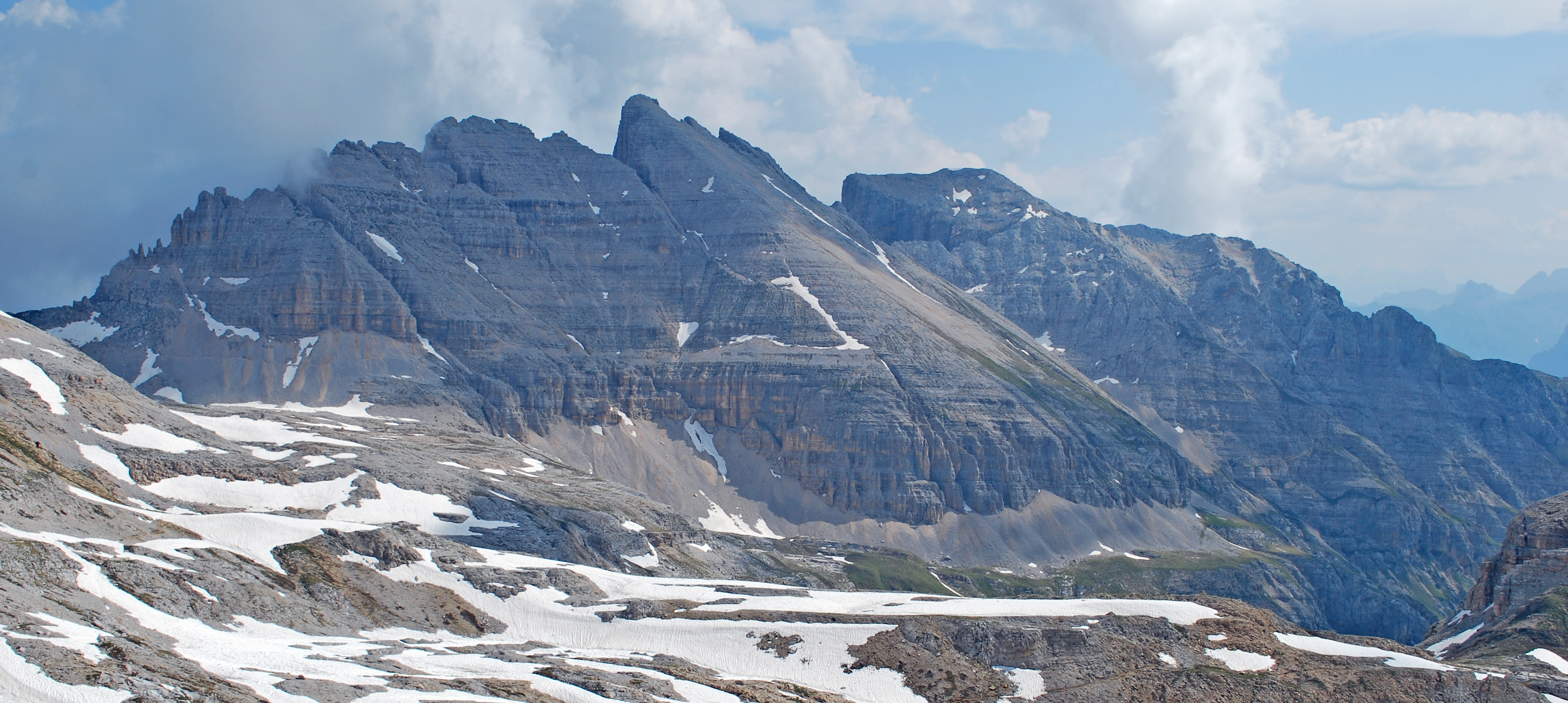 northern Latemar Group from SW